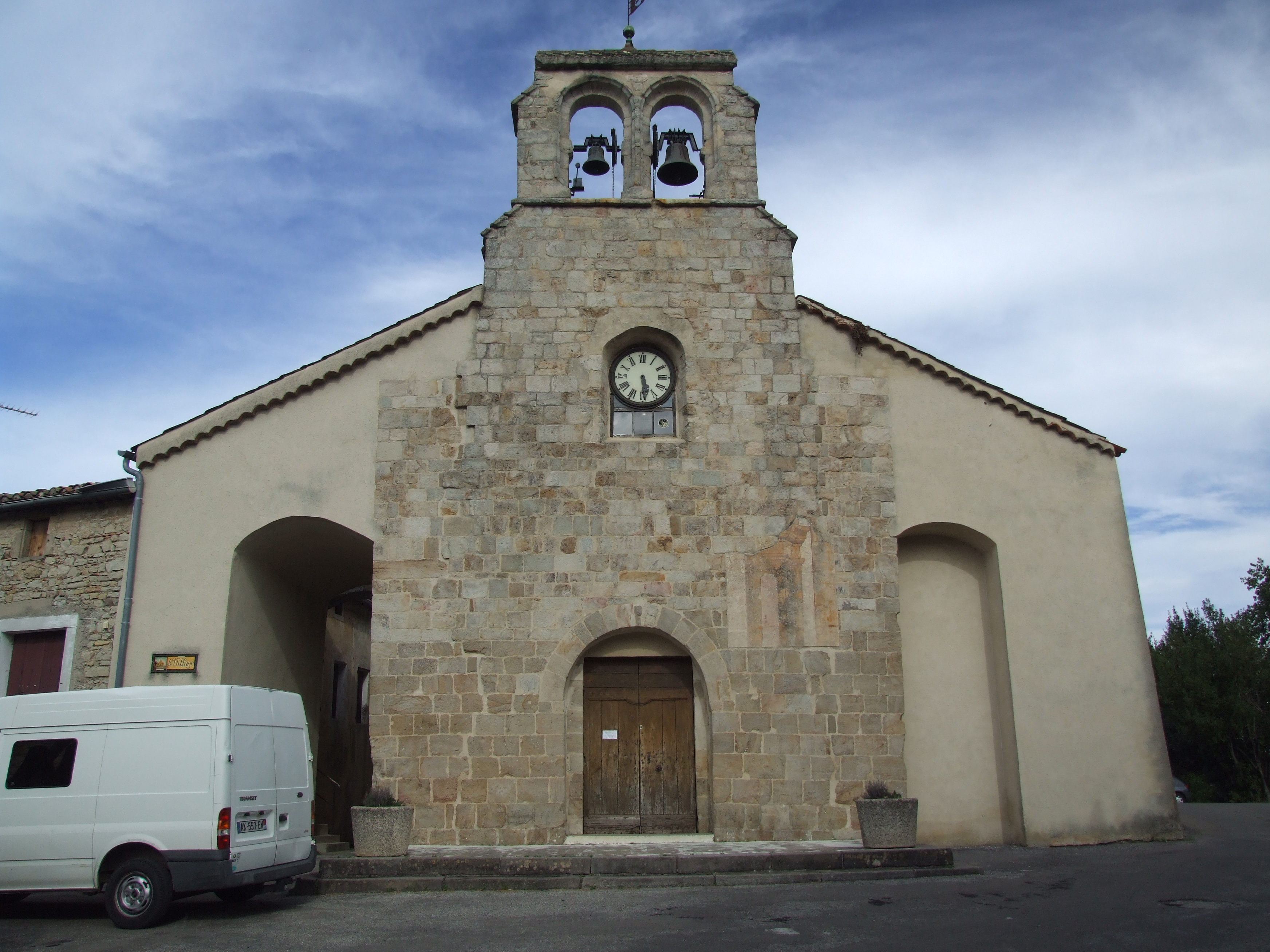 Courry is a commune, situated on the D559 in the Canton of St Ambroix, in the departement of Gard in the region Languedoc-Roussillon in southern France. Its post code is F30500 and INSEE 30097.